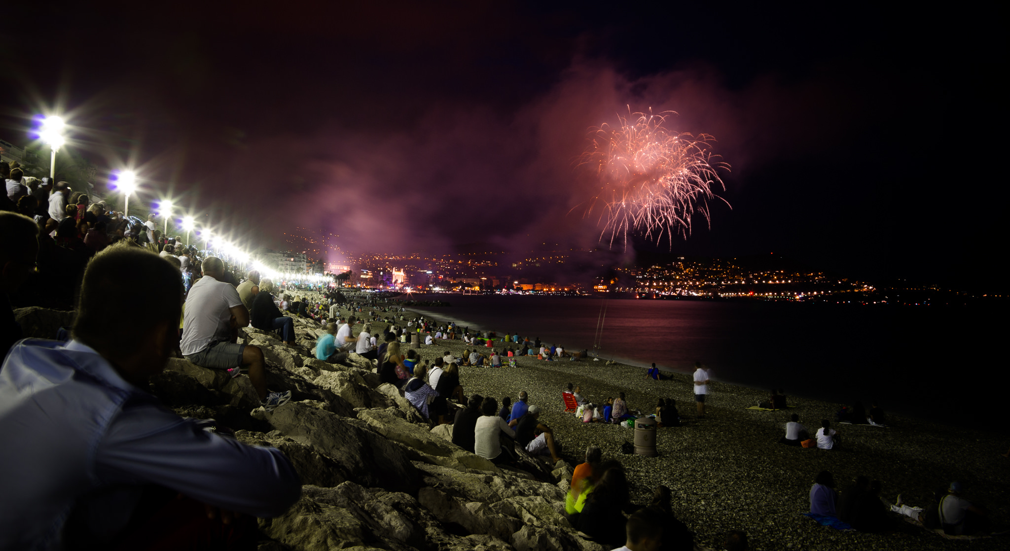 Fireworks for La Fête Nationale, July 14, 2014 in Nice, France.